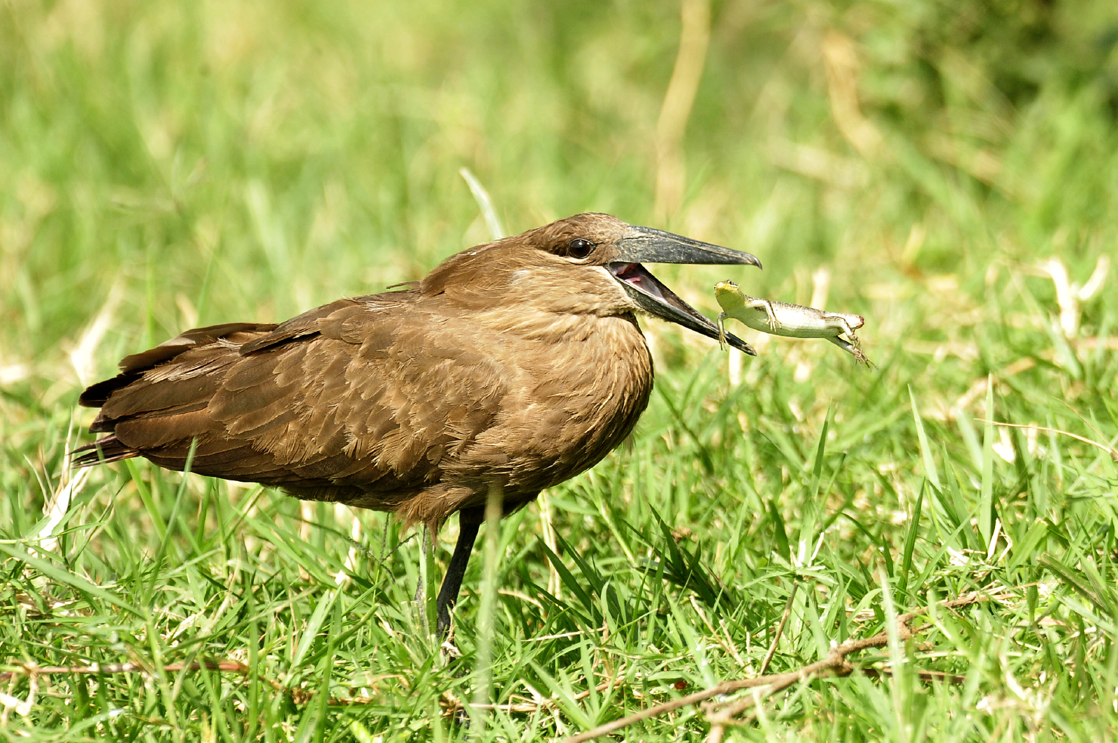 This hamerkop, shown attempting to make a meal of a fellow creature, is among the species whose homes are in jeopardy, in part due to the effects of climate change and habitat destruction on the African continent. Credit: Julie Larsen Maher, Wildlife Conservation Society